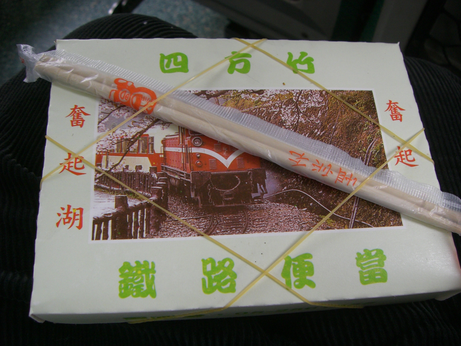 阿里山上的奮起湖便當 Alishan Forest Railway Fenchihu Station Ekiben